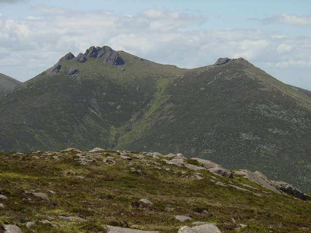 On Cove Mountain, view west. Looking west from Cove Mountain to the rugged peak of Slieve Bearnagh.